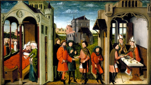 a part of two panel with each three scenes from the life of St. Ulrich